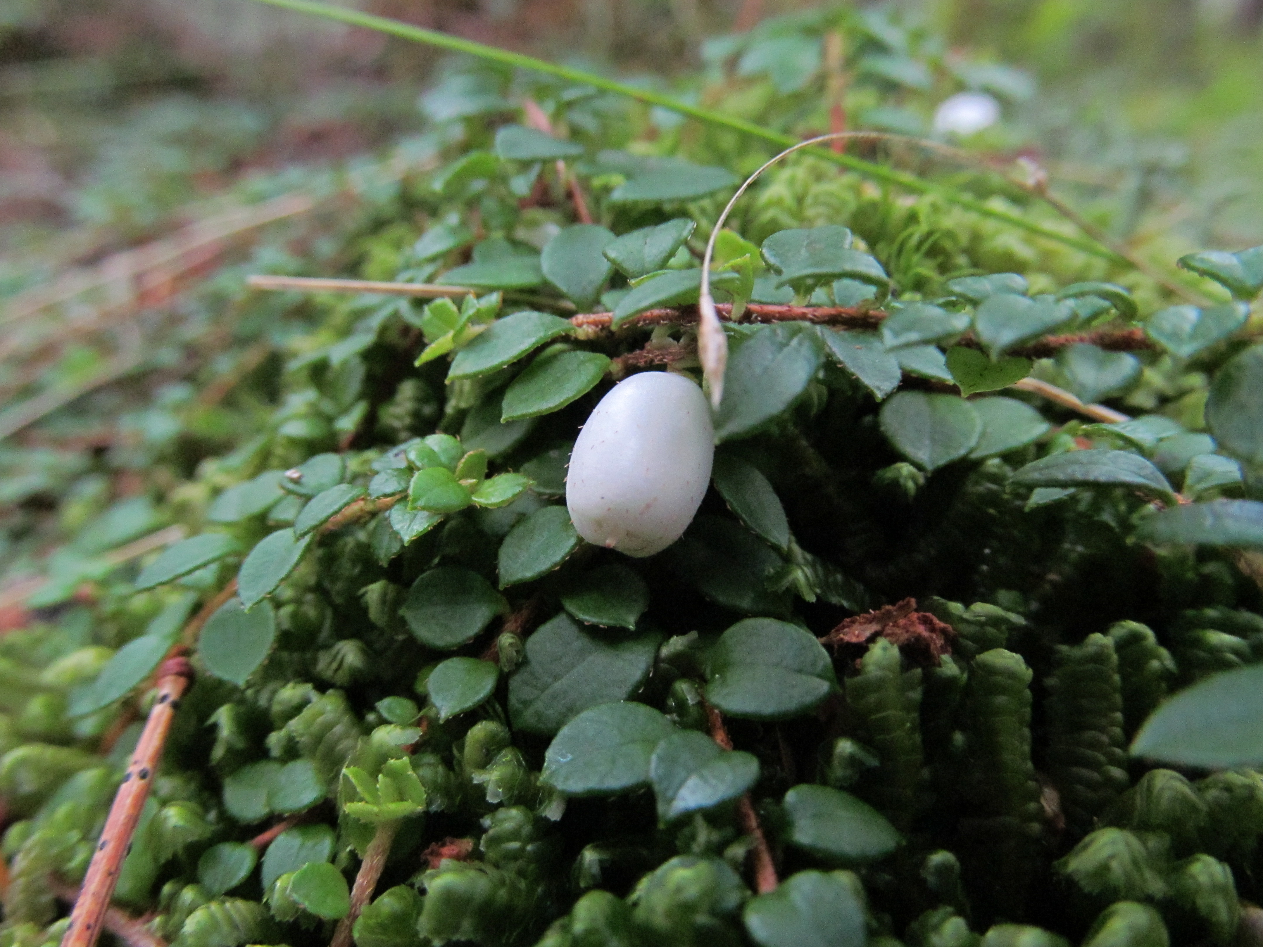 Photo of Gaultheria hispidula (Creeping snowberry, or moxie plum) showing foliage and ripe fruit. This was growing in a bog in Lincoln, NH about 100 meters off the East Pond Trail.